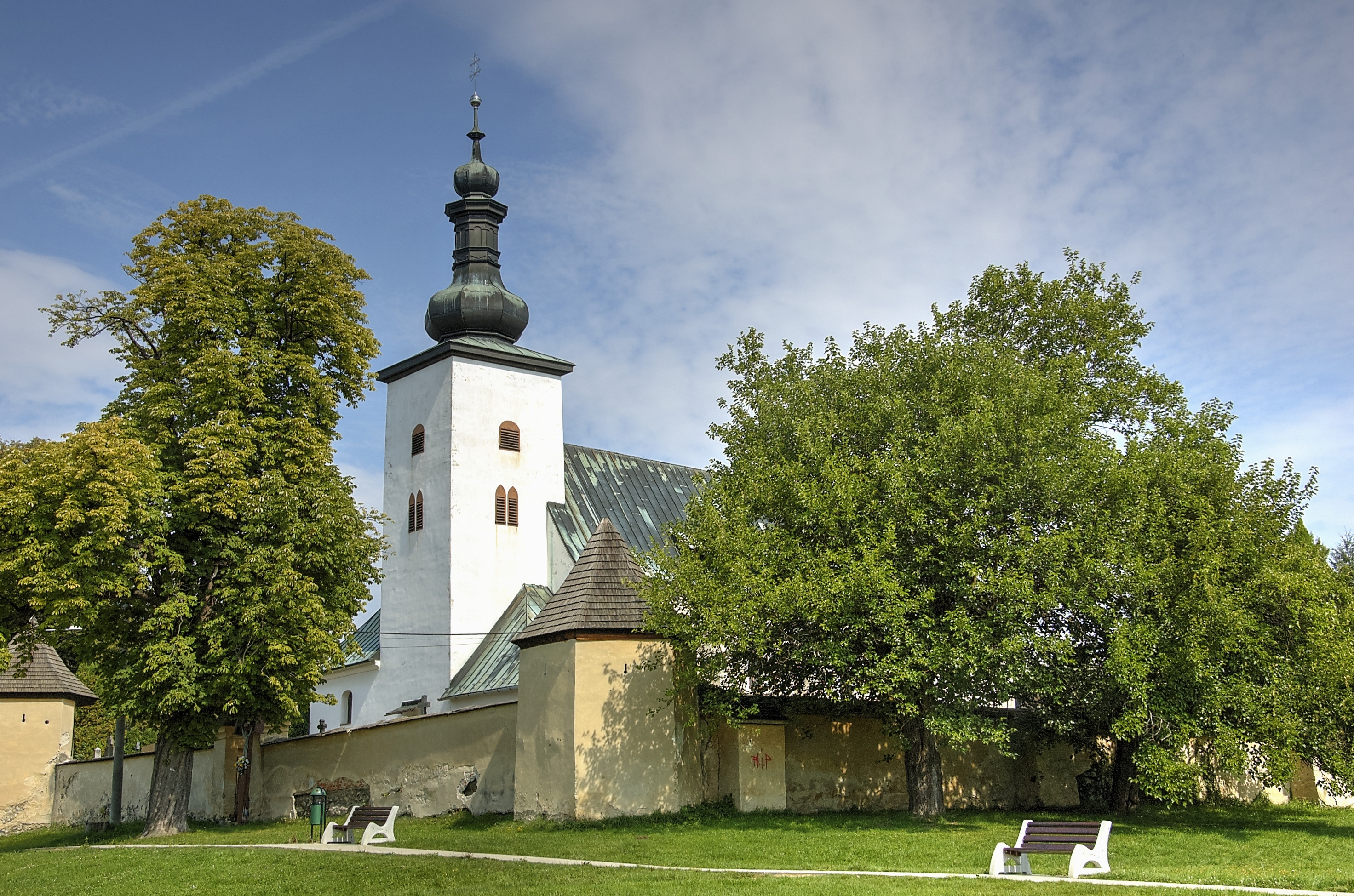 Church of the Assumption of the Holy Virgin in Prievidza